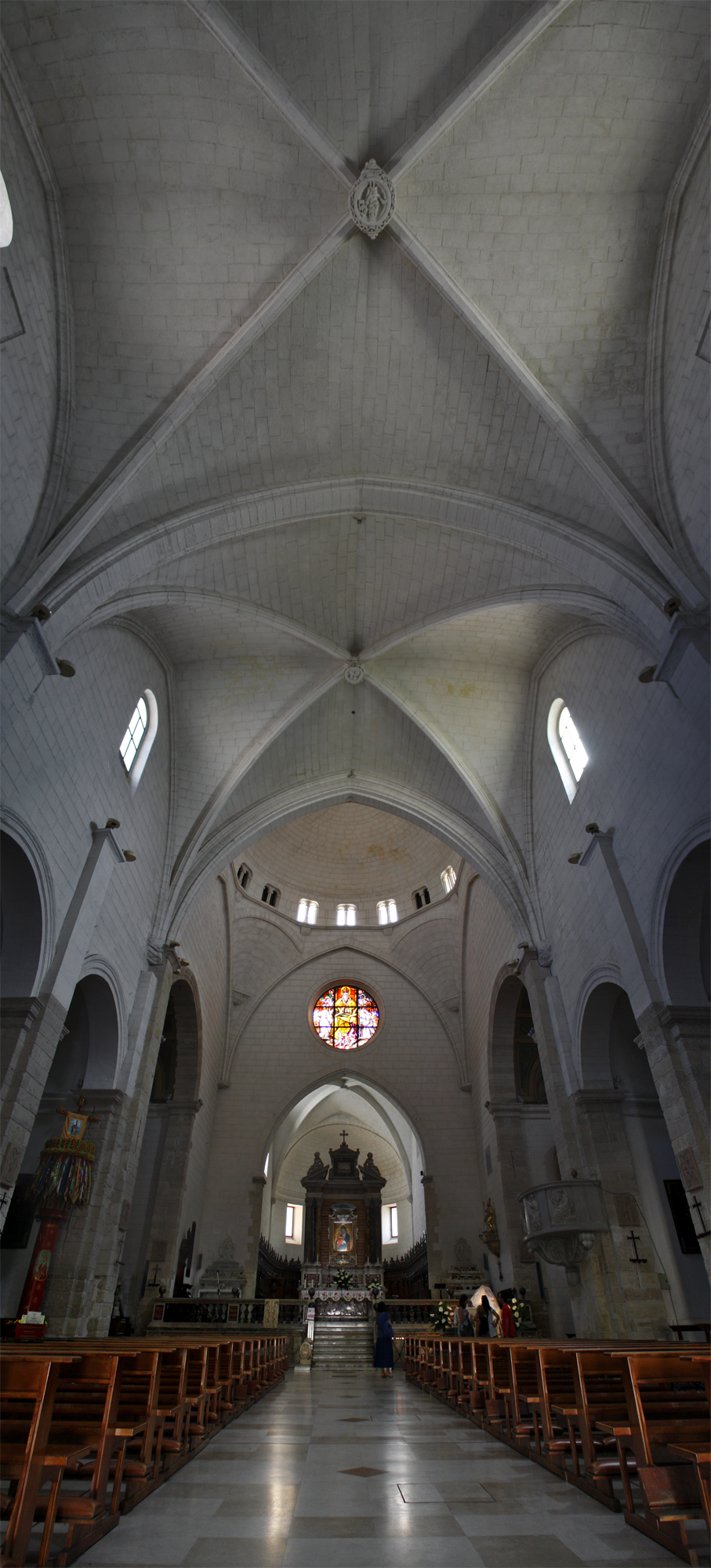 Interior of Saint Nicholas Cathedral - Sassari